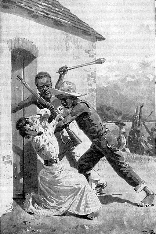 “Pictures such as this are to be found in contemporary colonial books and show German women as victims of the war. However, although four white women lost their lives at the beginning of the war, it was well-known that Herero fighters spared women and children and even, on occasion, gave them protection. Thus horrific pictures such as this served above all for propaganda purposes in the context of a war which caused heavy losses, was expensive and was more and more subject to public criticism.”